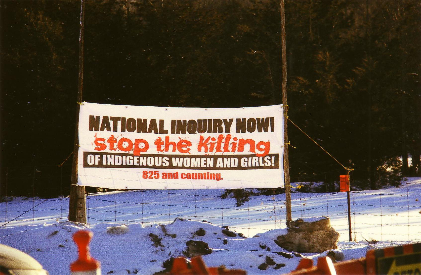 "NATIONAL INQUIRY NOW! stop the killing OF INDIGENOUS WOMEN AND GIRLS! 825 and counting" Sign displayed at a protest held on 4 March 2014 on the Tyendinaga Mohawk Territory, Ontario. One of a series of photographs taken by Bobby-Jo Morris of the protests.